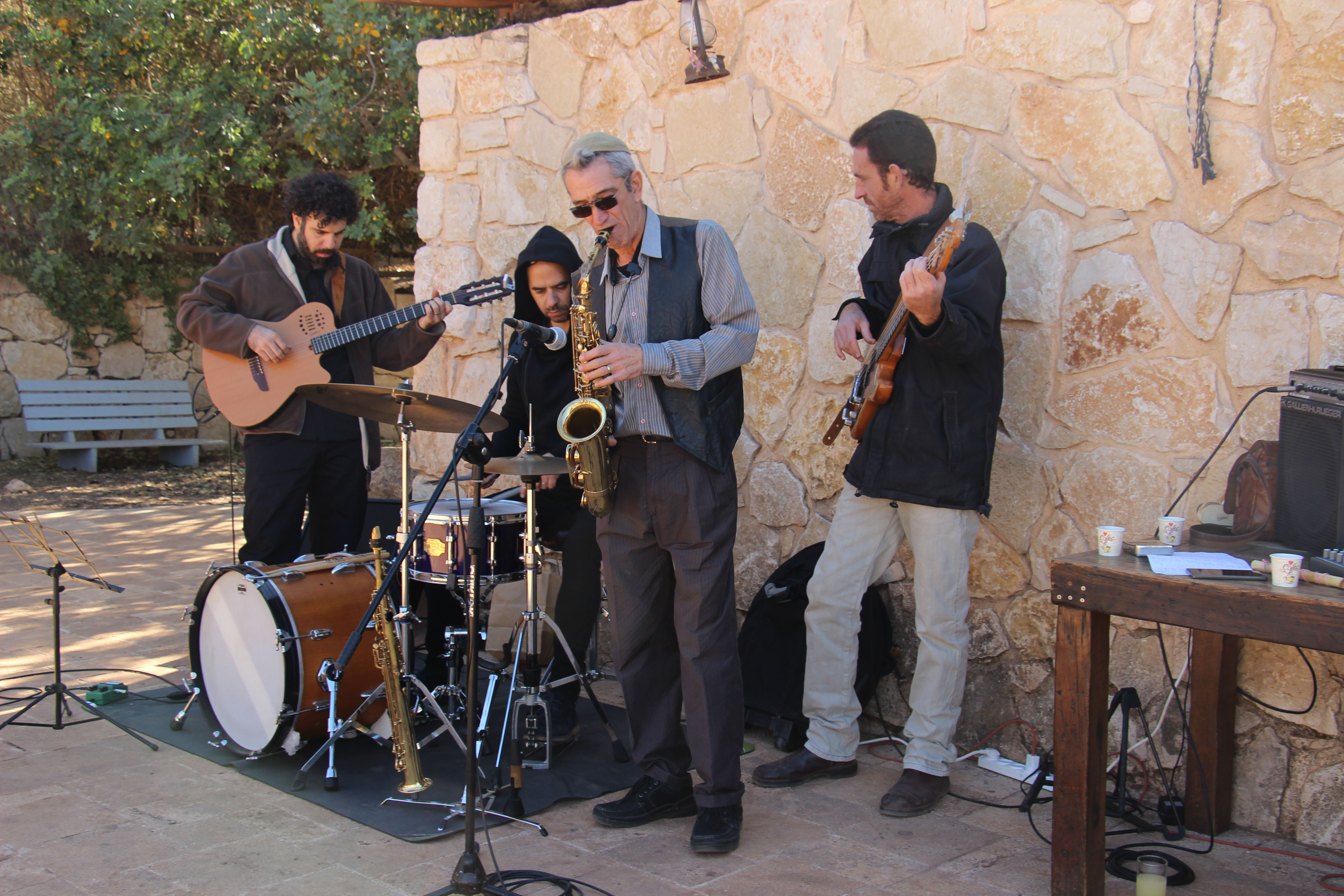 music plays a musical composition